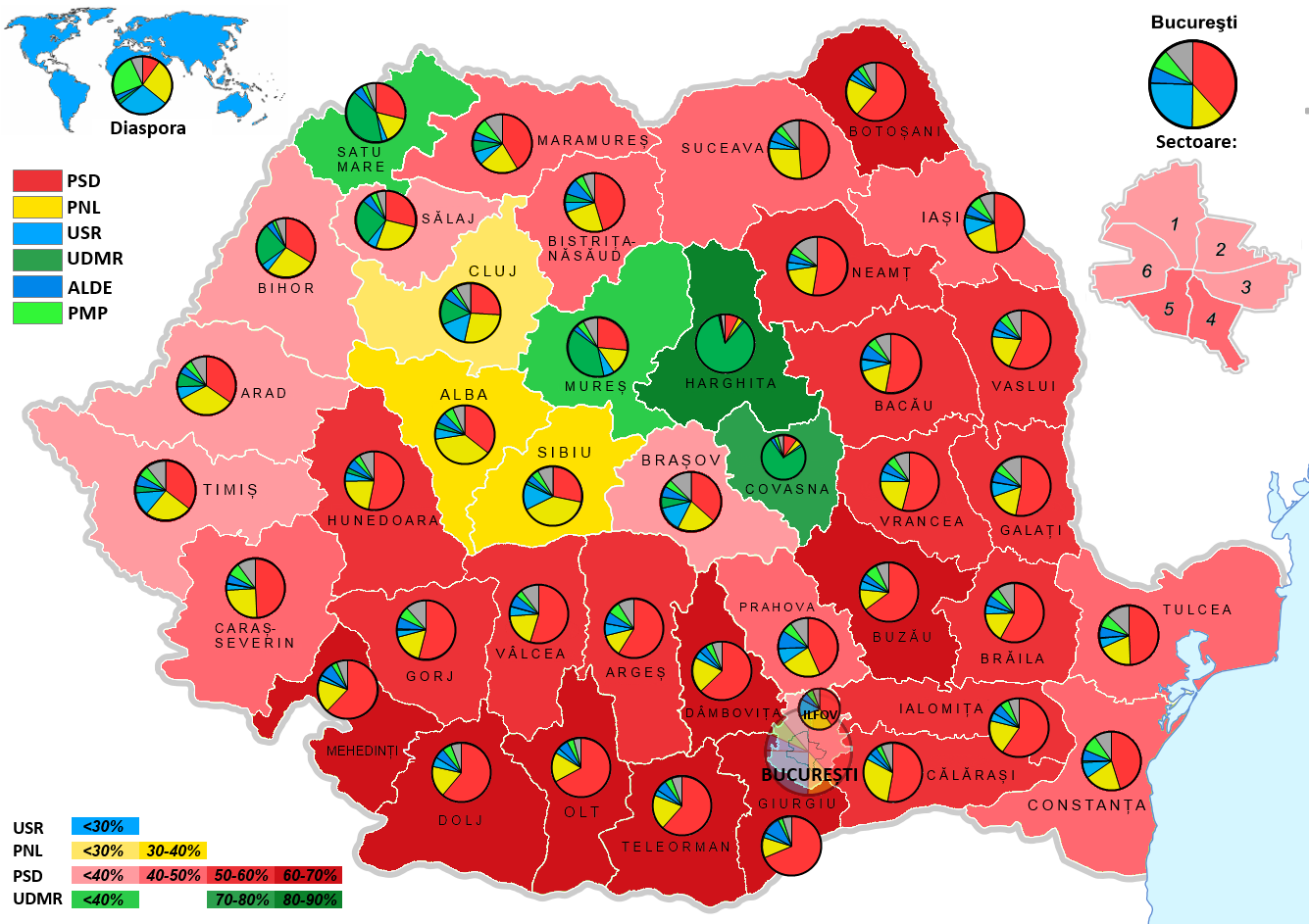 Results of the 2016 romanian parliamentary elections in each county and the romanian diaspora.(chamber of deputies) PSD - red PNL - yellow USR - blue UDMR - green ALDE - dark blue PMP - light green